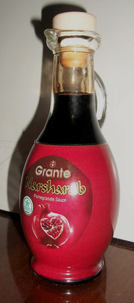 "Narsharab" - pomegranate sauce